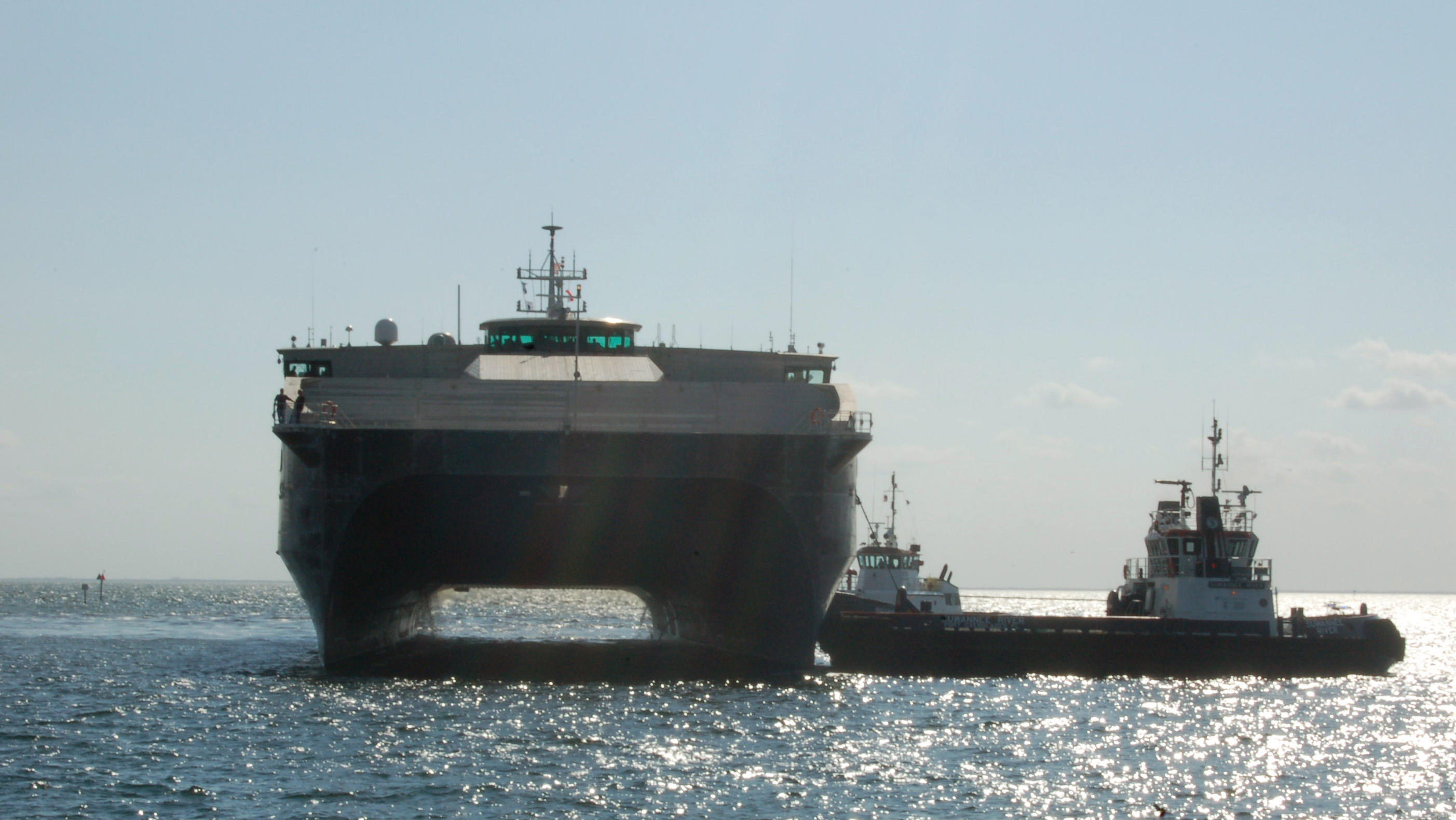 Harbor tugboats push the Military Sealift Command joint high speed vessel USNS Spearhead (JHSV 1) toward the pier as she arrives for a port visit at St. Petersburg, Fla., Feb. 10, 2013.